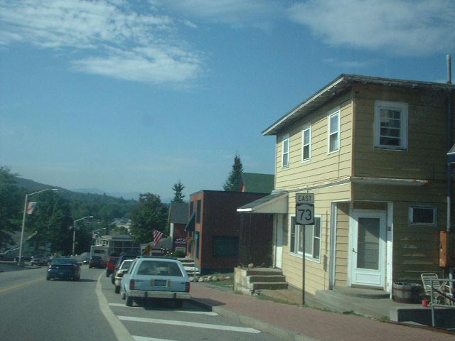 New York State Route 73 in the Adirondacks.